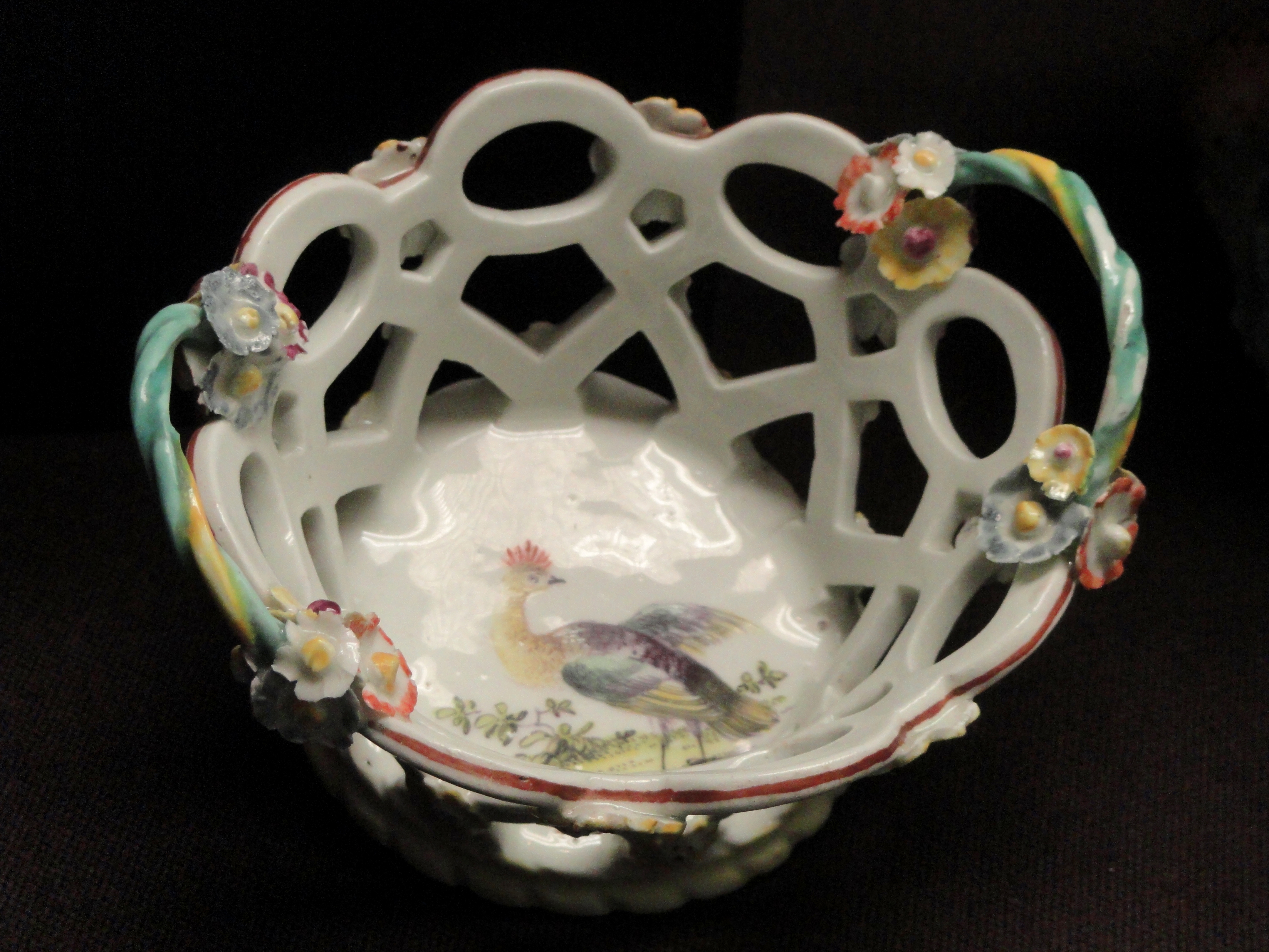 Exhibit in the Gardiner Museum, Toronto, Ontario, Canada. This artwork is in the public domain because the artist died more than 70 years ago.